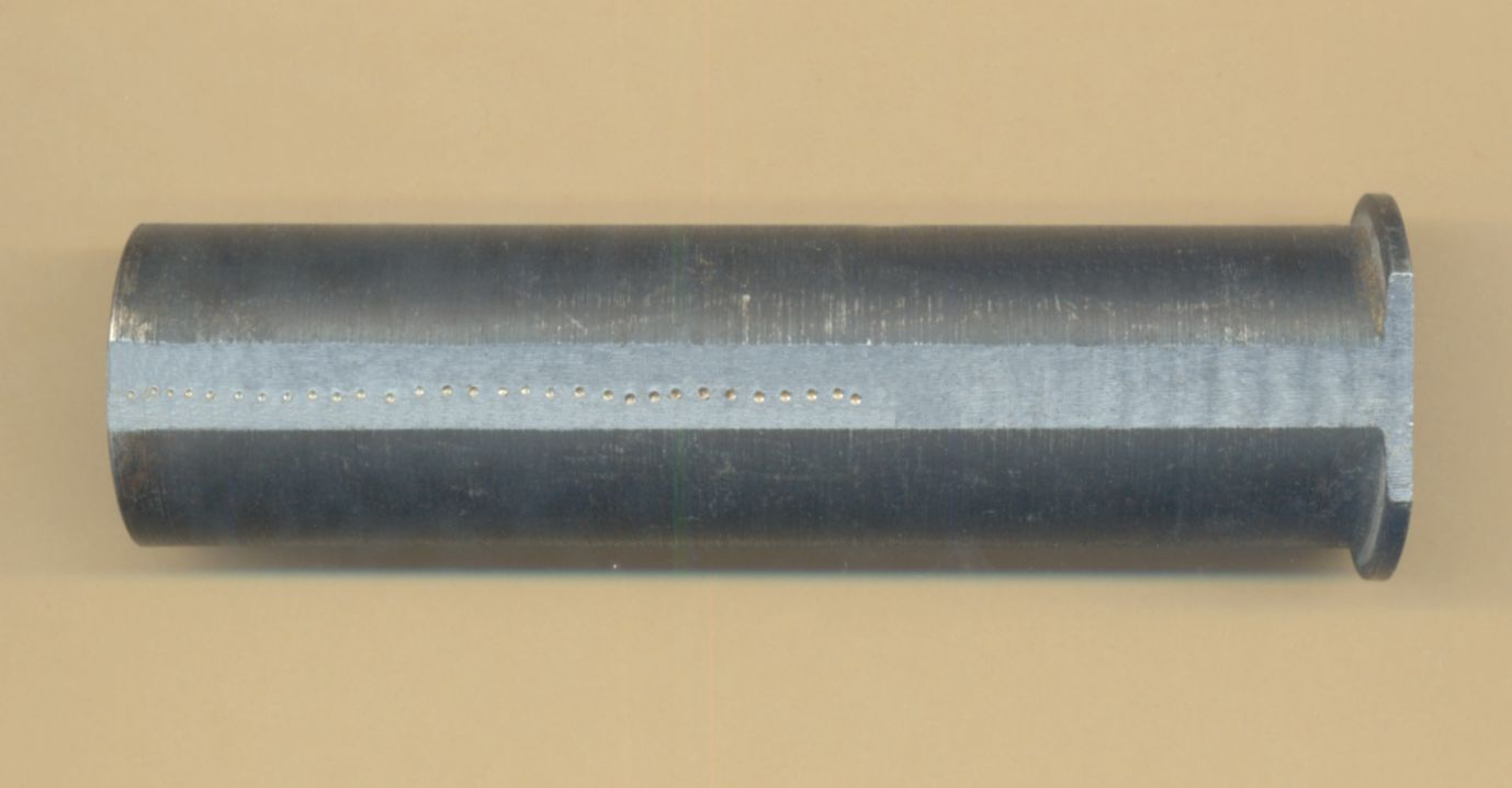 Quenching sample (Jominy),hardness tests Quenching sample (Jominy),hardness tests